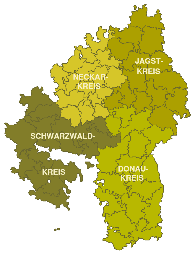 Map of the four "Kreise" of Württemberg (administrative divisions existing between 1818 and 1924) as of 1835.